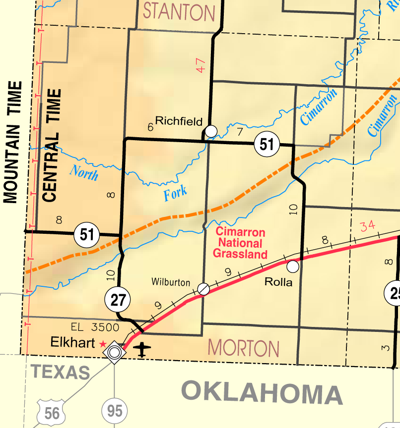 This map of Morton County, Kansas, USA, is copied at a resolution of 300 pixels/inch from the original PDF file.